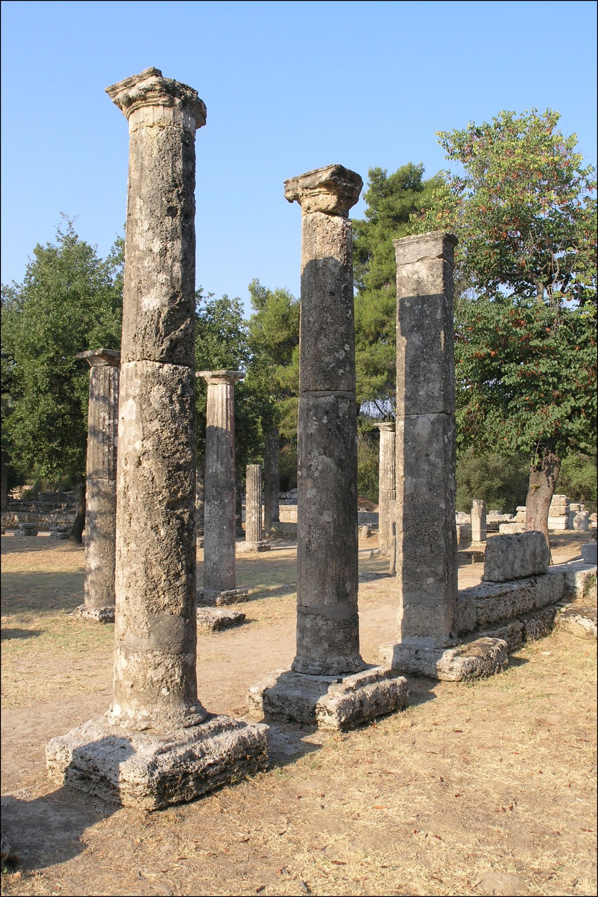 Olympia, Greek